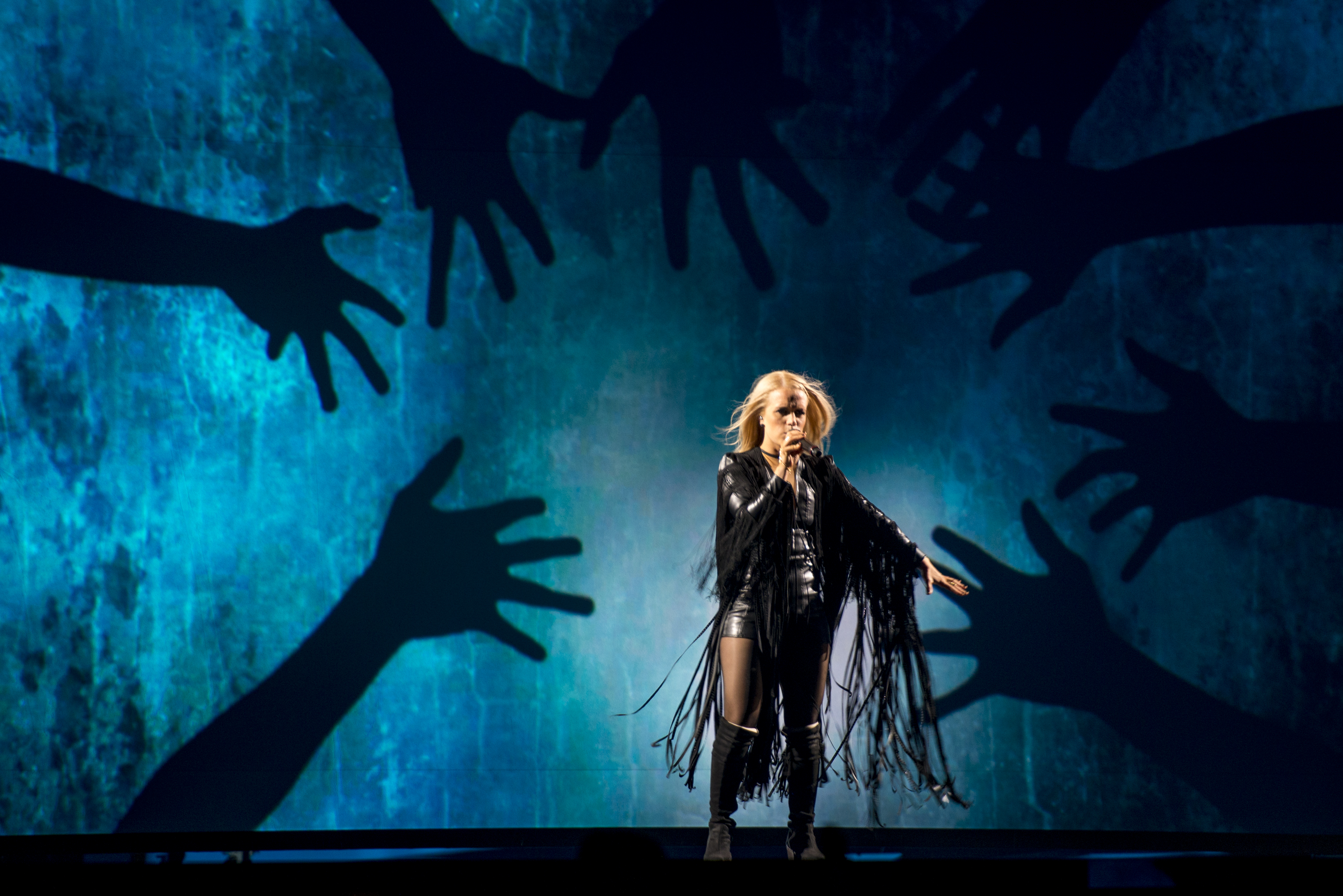 Greta Salóme representing Iceland with the song "Hear Them Calling" during a rehearsal before the first semi final of the Eurovision Song Contest 2016 in Stockholm. (Help translate this text)